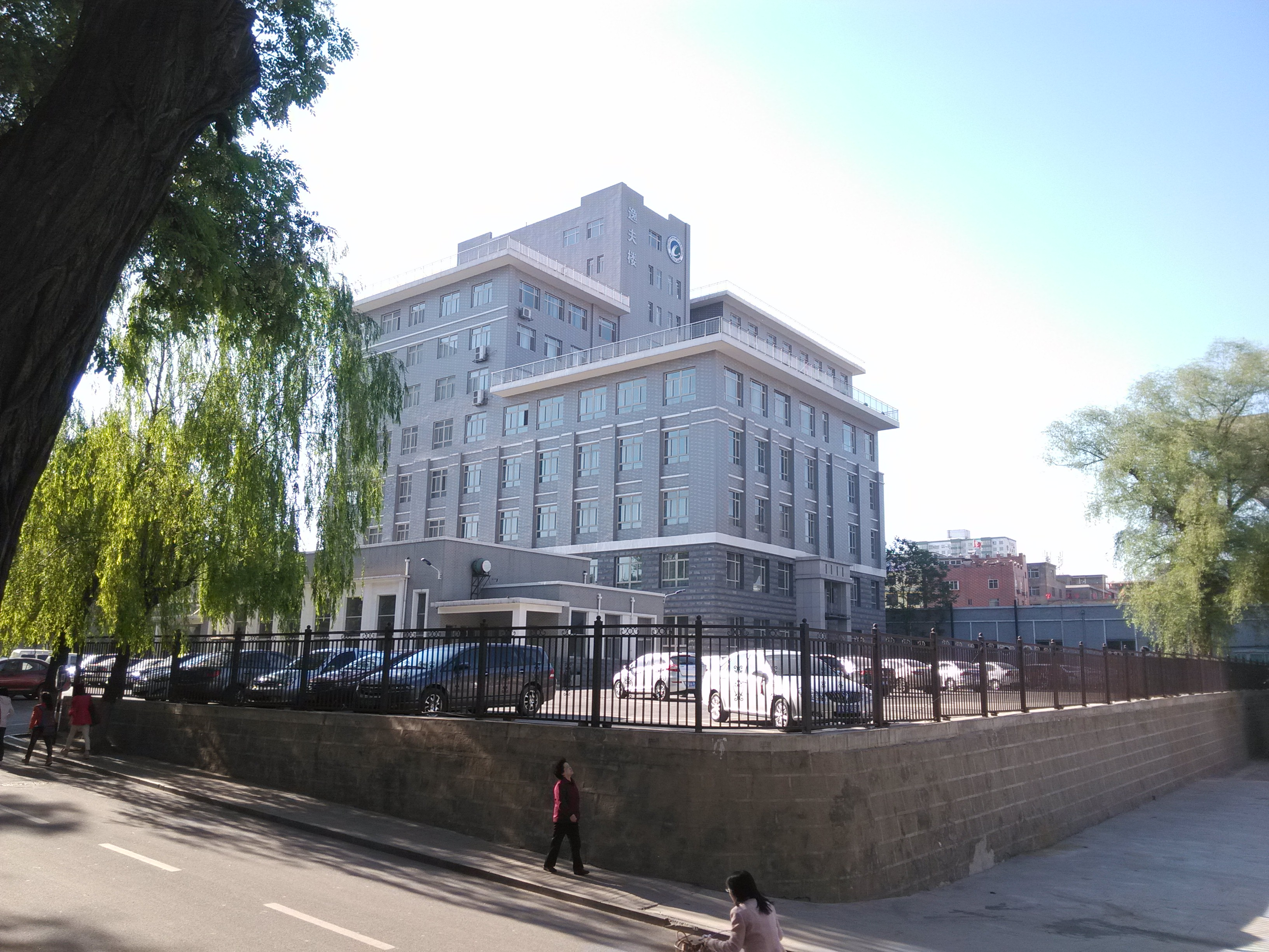 Taiyuan University of Technology Yingxi Campus Sir Shaw Run Run Building.